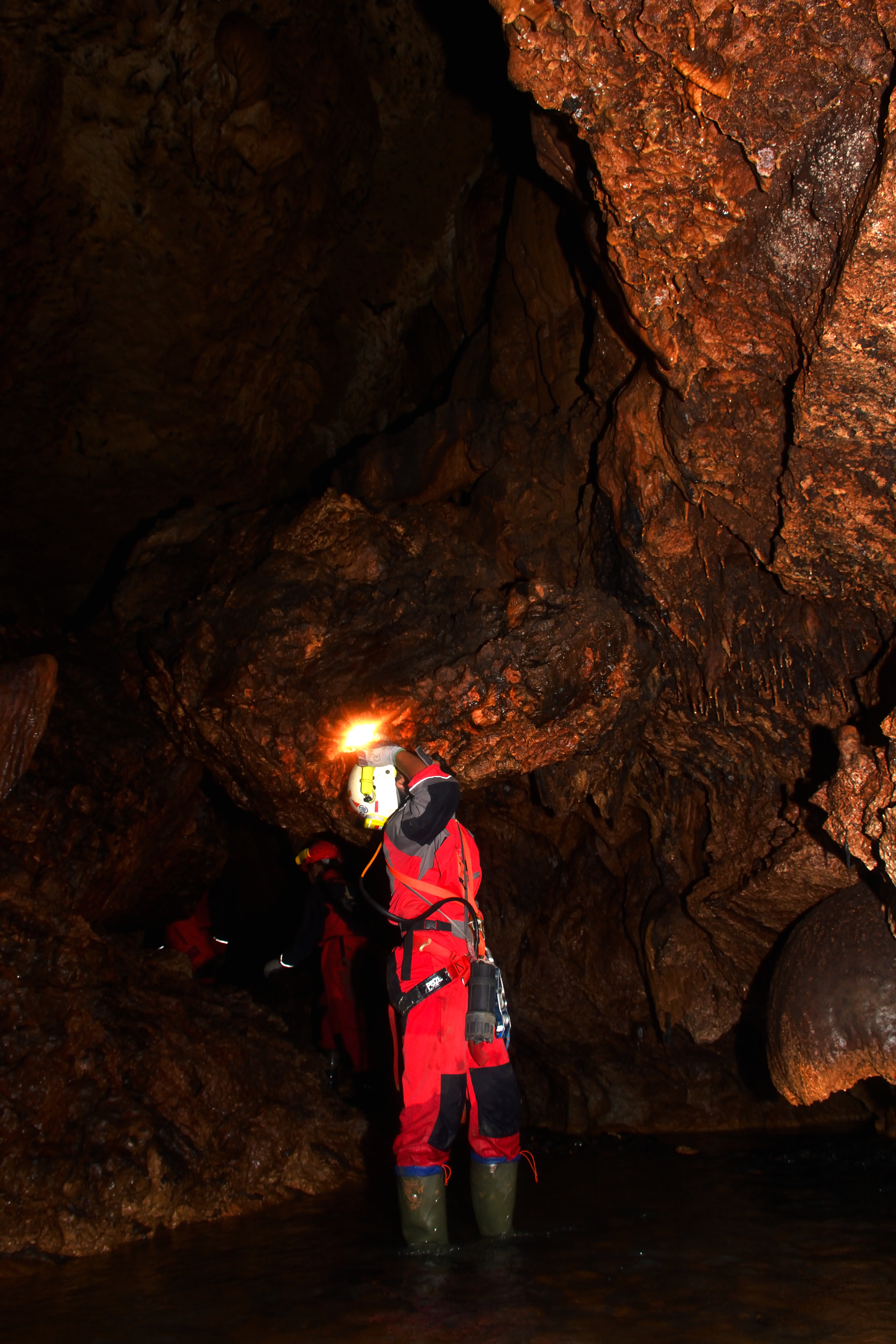 A guide showed the ceiling inside Buniayu Cave, West Java, Indonesia